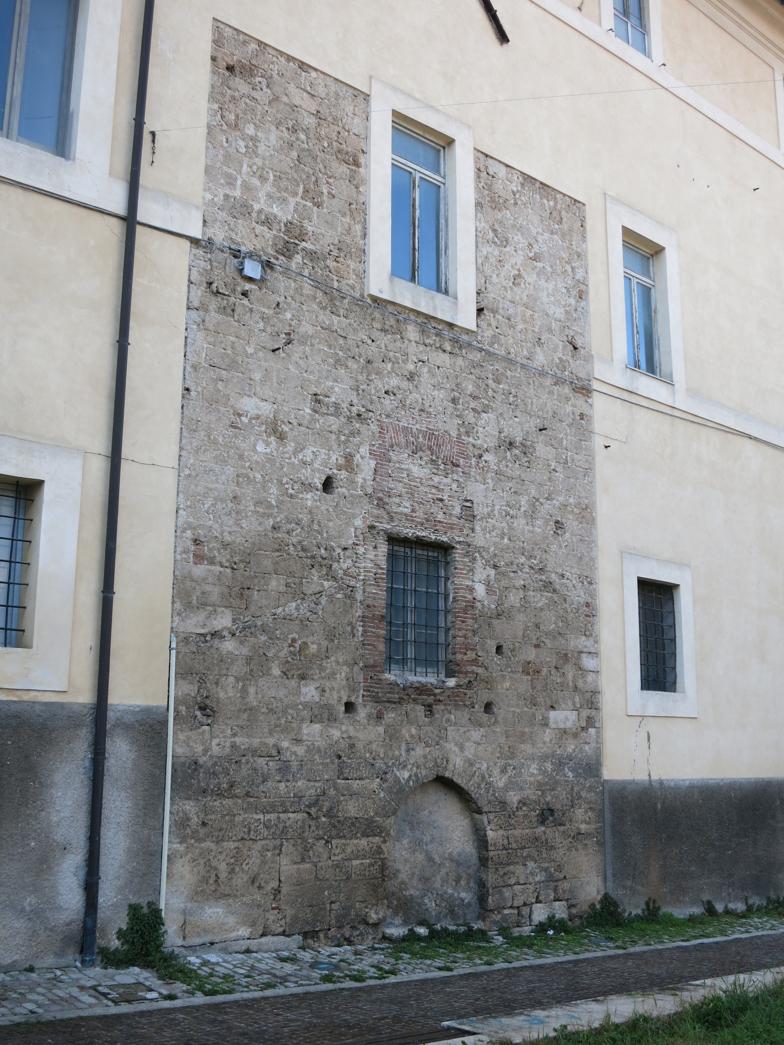 Seminary Palace - Rieti, Lazio, Italy